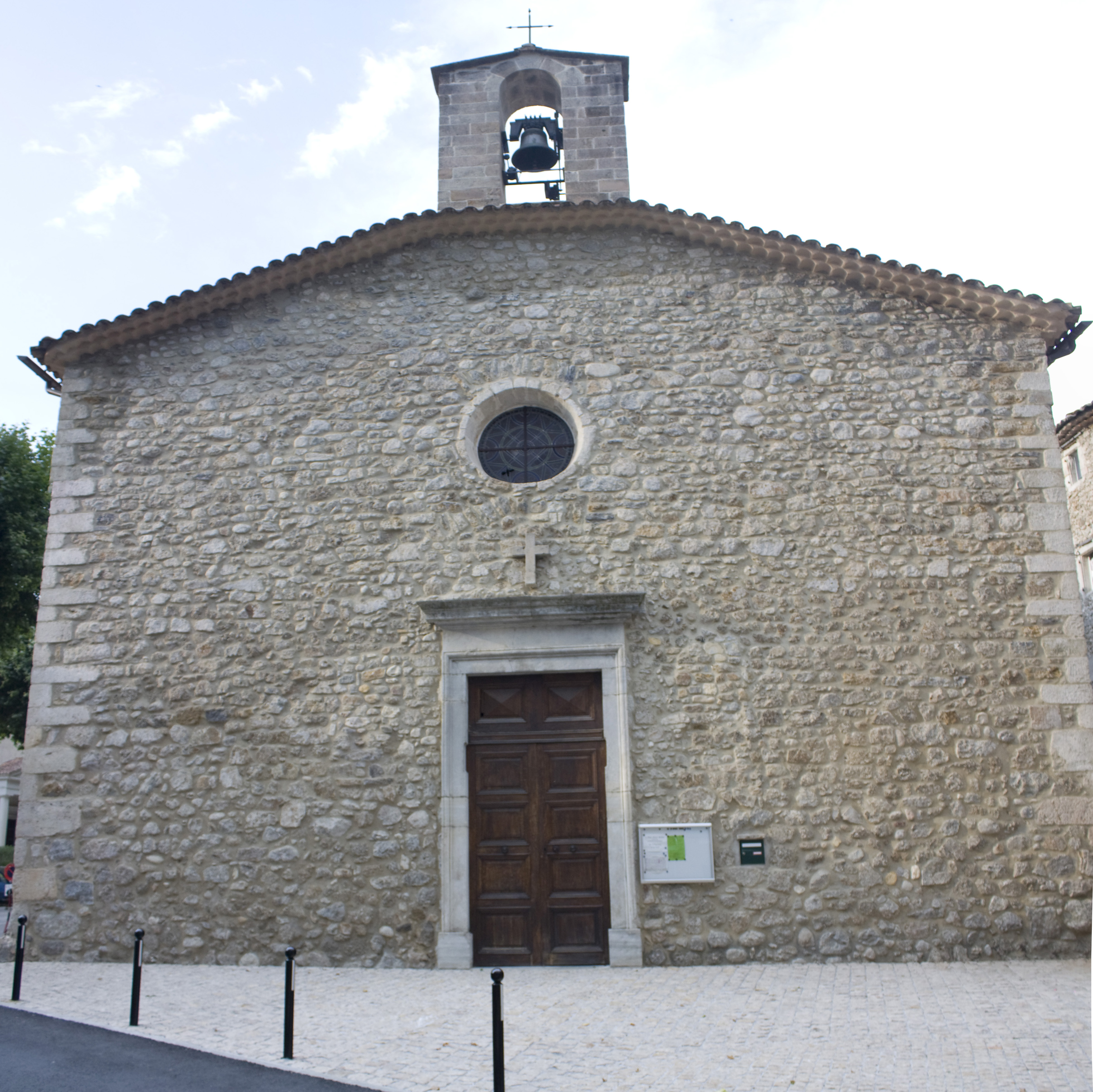 Lasalle parish church.